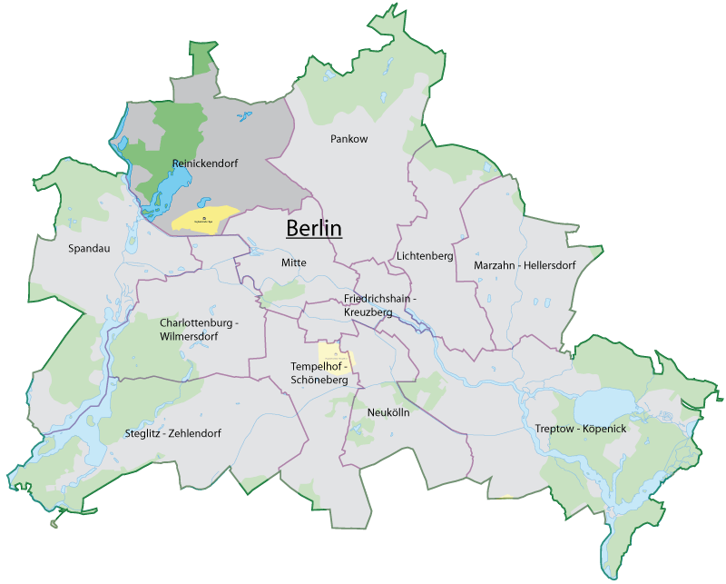 Author: Felix Hahn Source: Based on Water map of Berlin Description: Map of Berlin and its districts.